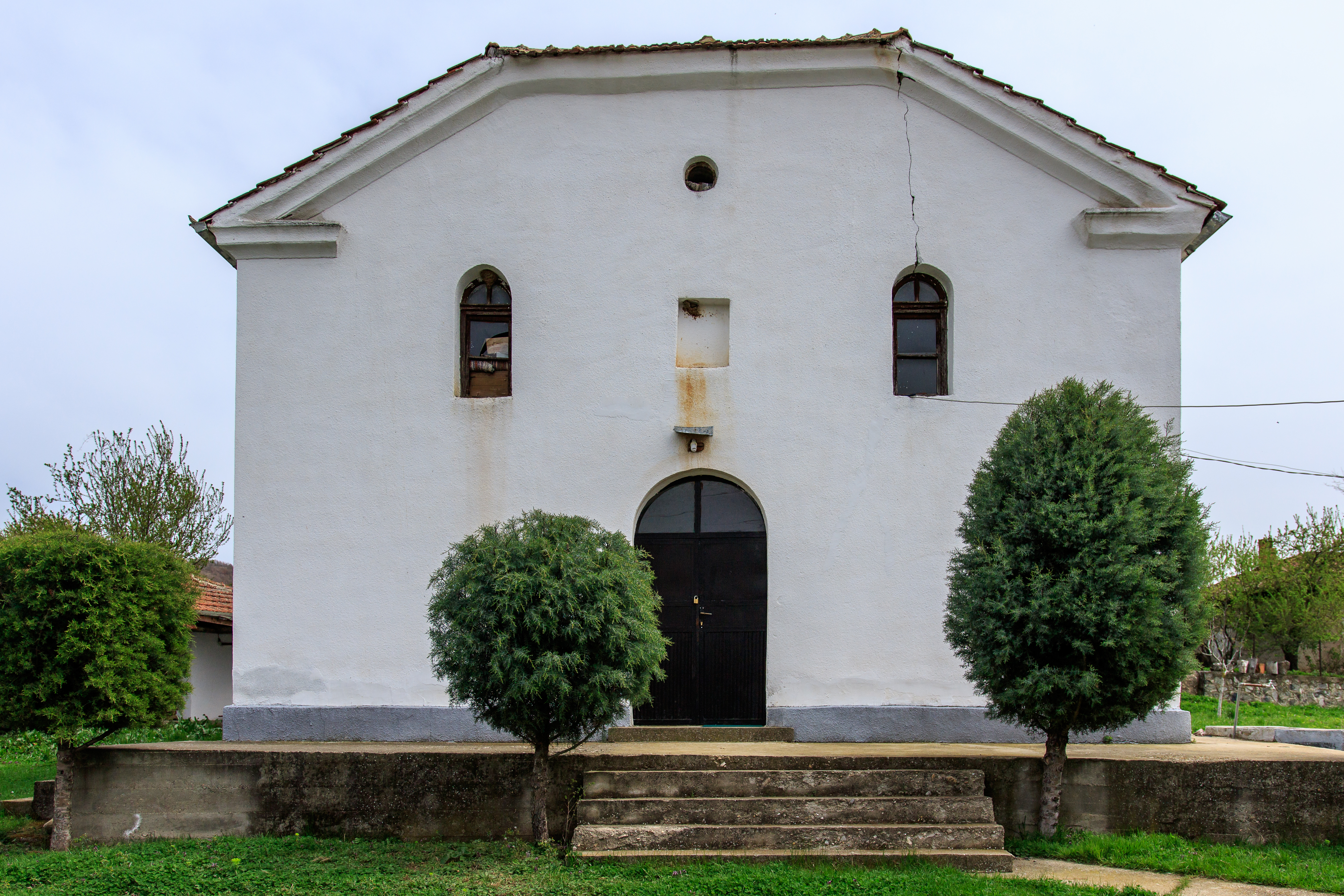 View of the Nativity of the Theotokos Church in the village Rakitec